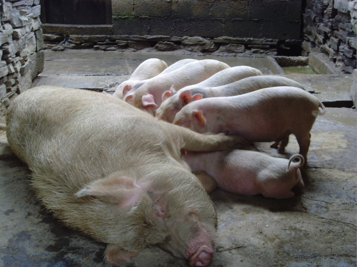 some little pigs are eating sow's breast milk